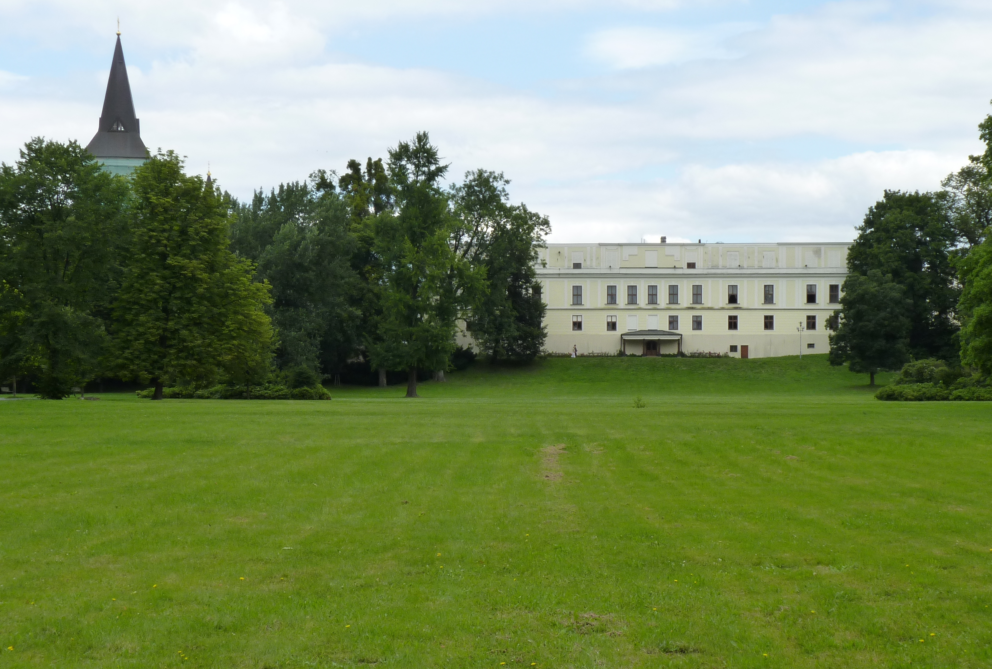 Castle and park. Karviná, Karviná District, Moravian-Silesian Region, Czech Republic